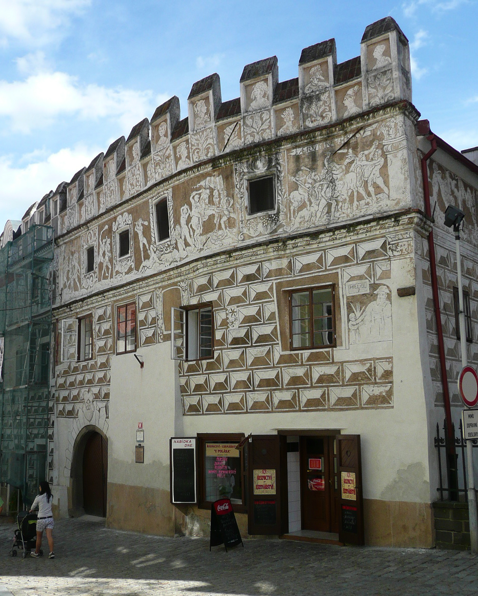 Old house with sgraffito, Kostelní náměstí 29, Prachatice, South Bohemia.